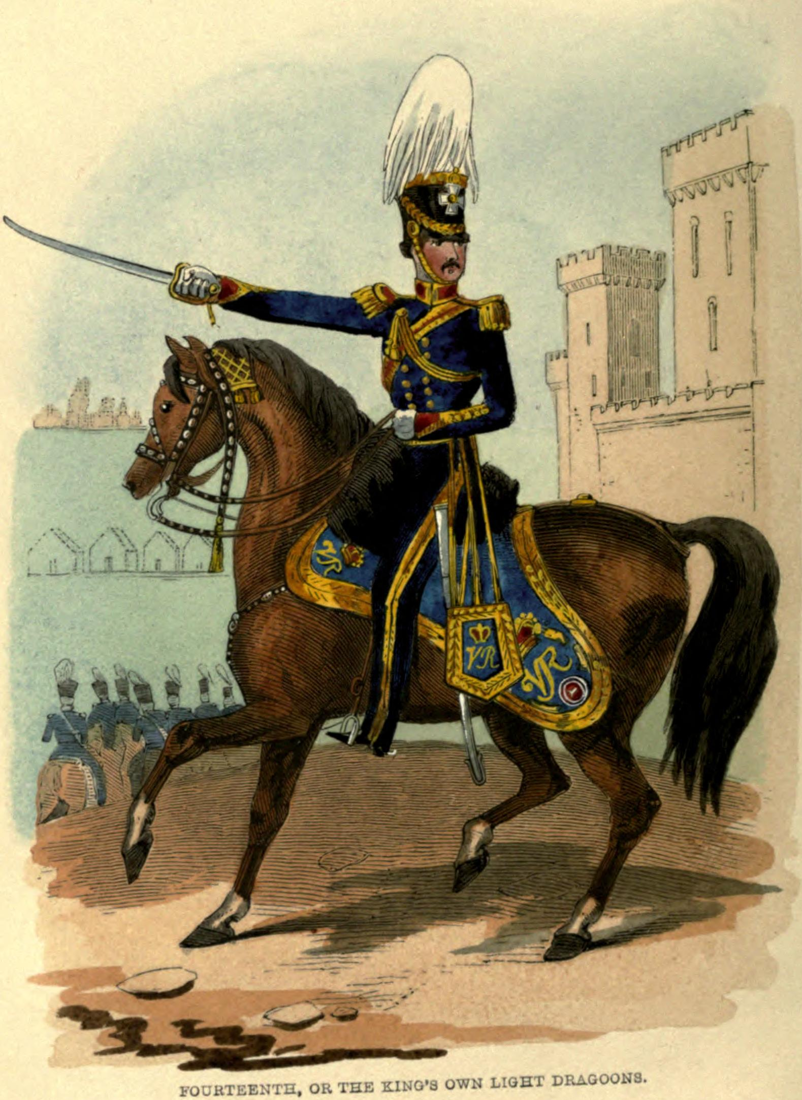 Uniform of the 14th Foot.